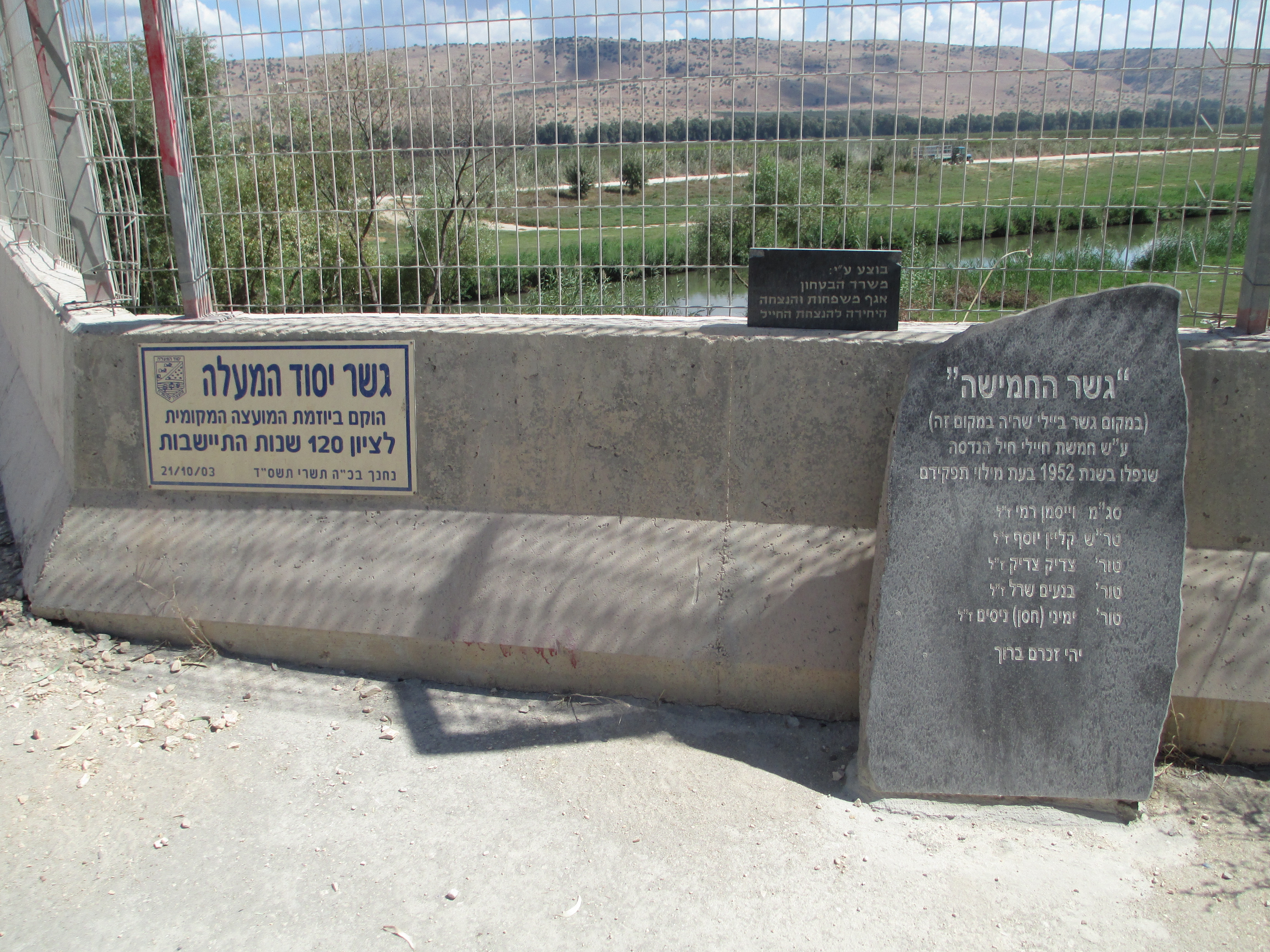 Hachamisha bridge on jordan river